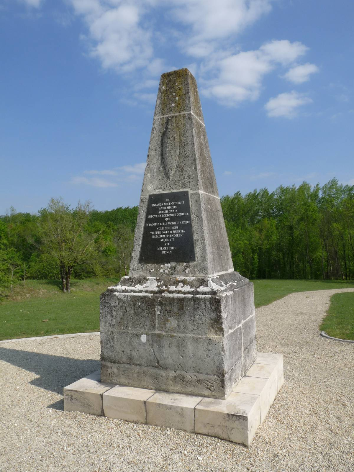 Deathplace of Prince of Condé in the battle of Jarnac